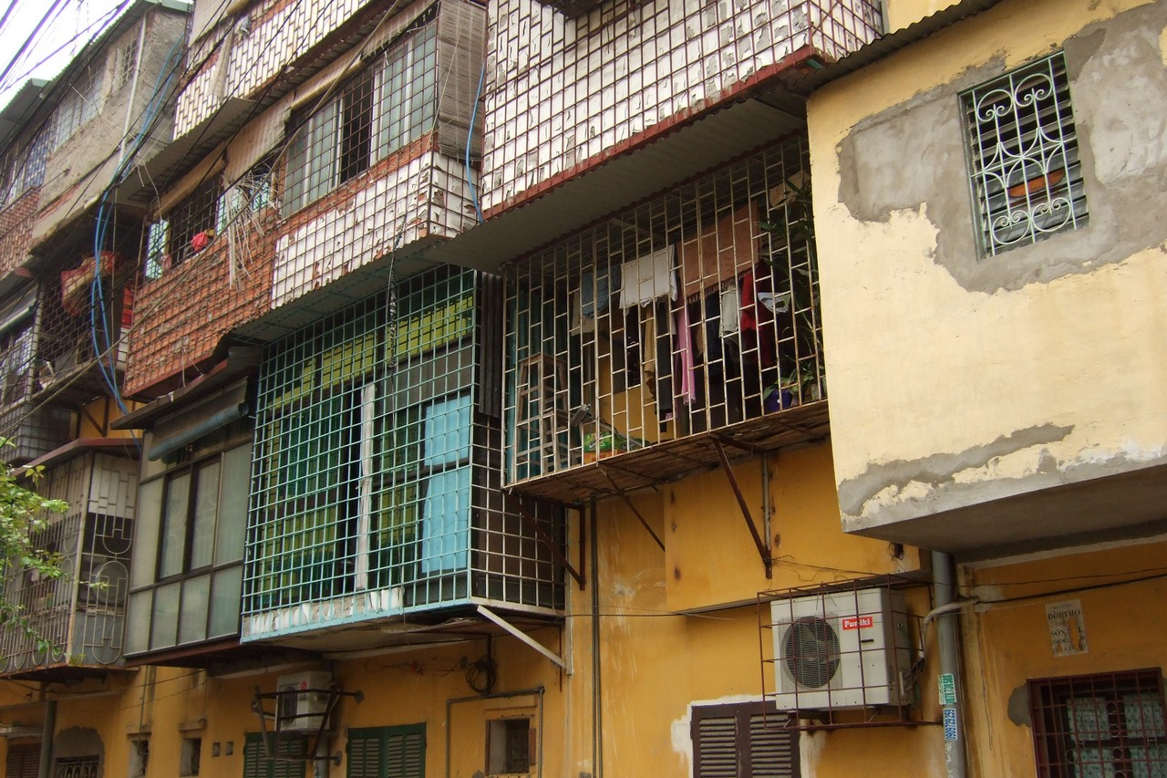 "Tiger cages" from buildings in Hanoi